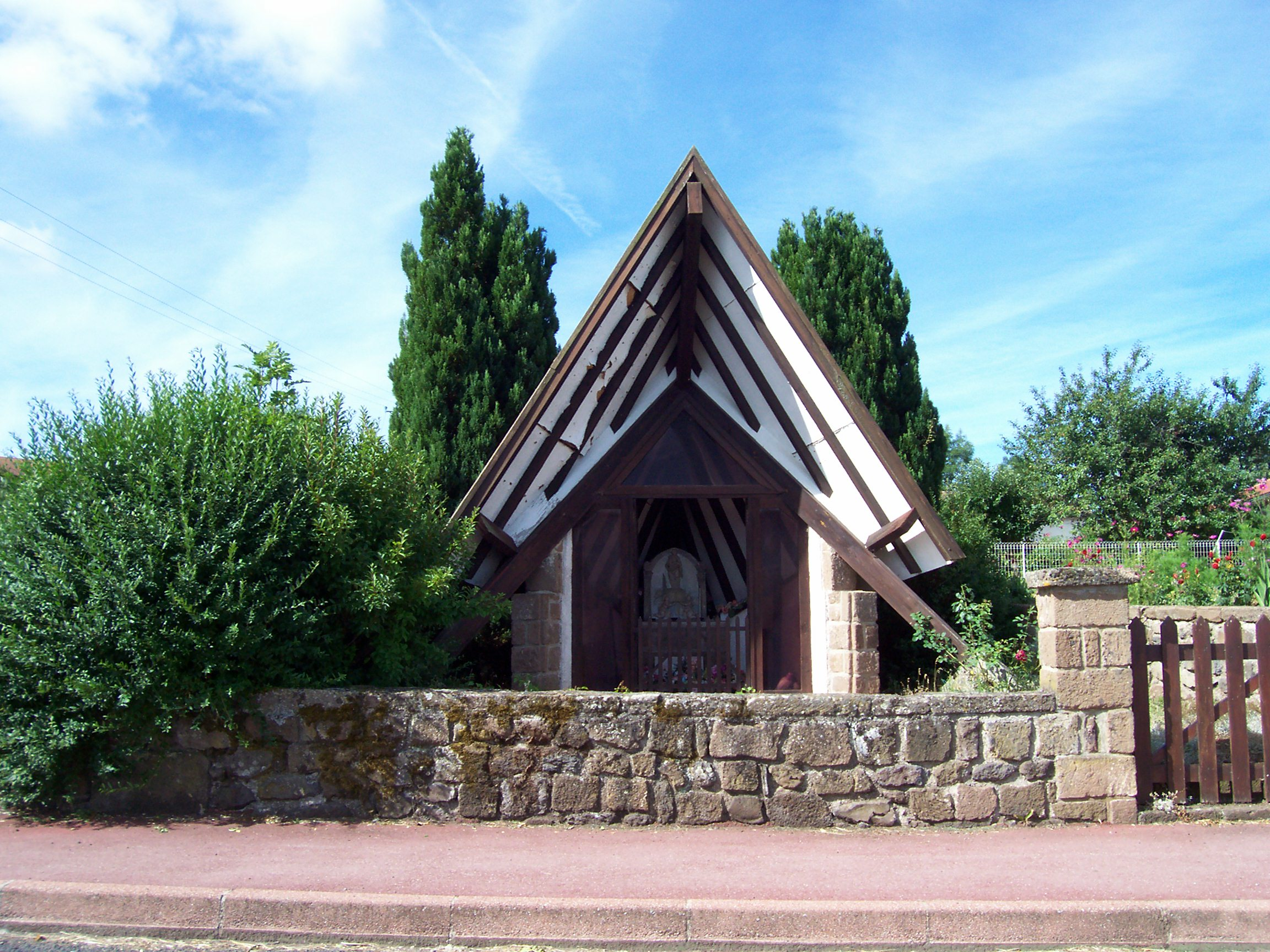 Notre Dame de Lorette